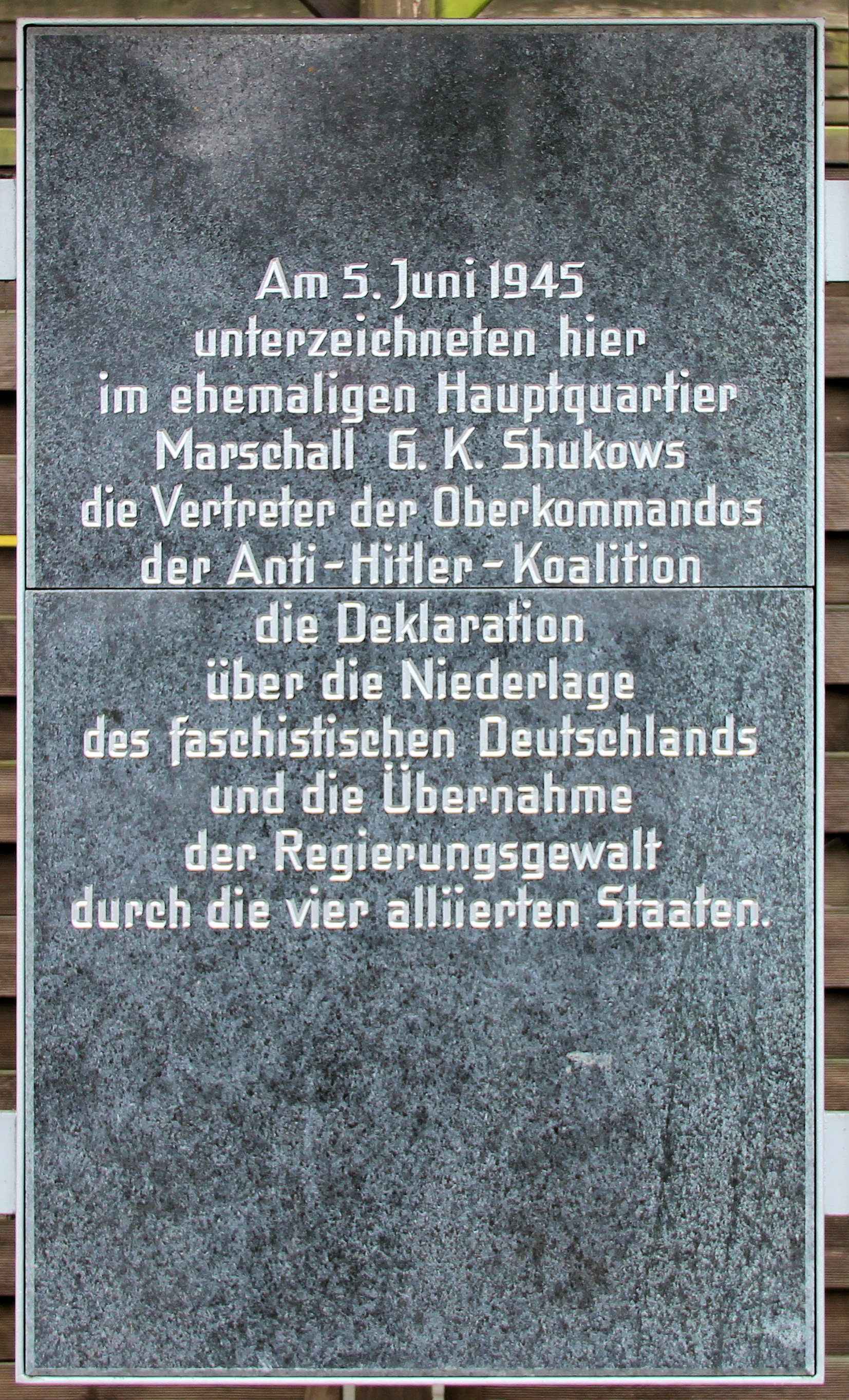 Memorial plaque, Berliner Erklärung, Niebergallstraße 20, Berlin-Köpenick, Germany